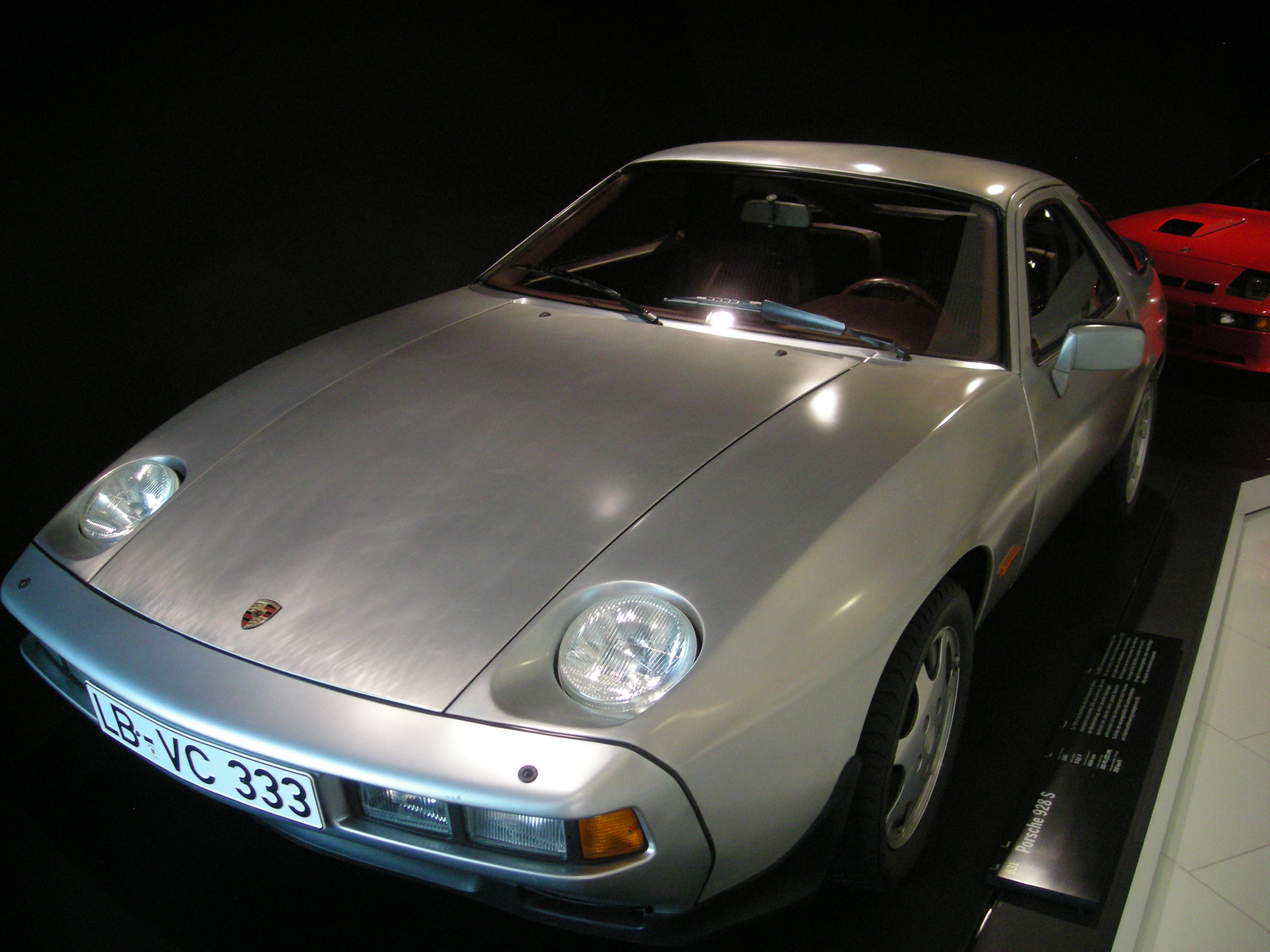 A 1983 Porsche 928 S inside the Porsche Museum in Stuttgart, Baden-Württemberg (Germany).